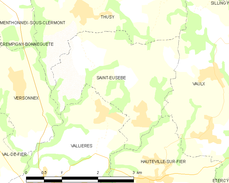 Map of French municipality Saint-Eusèbe